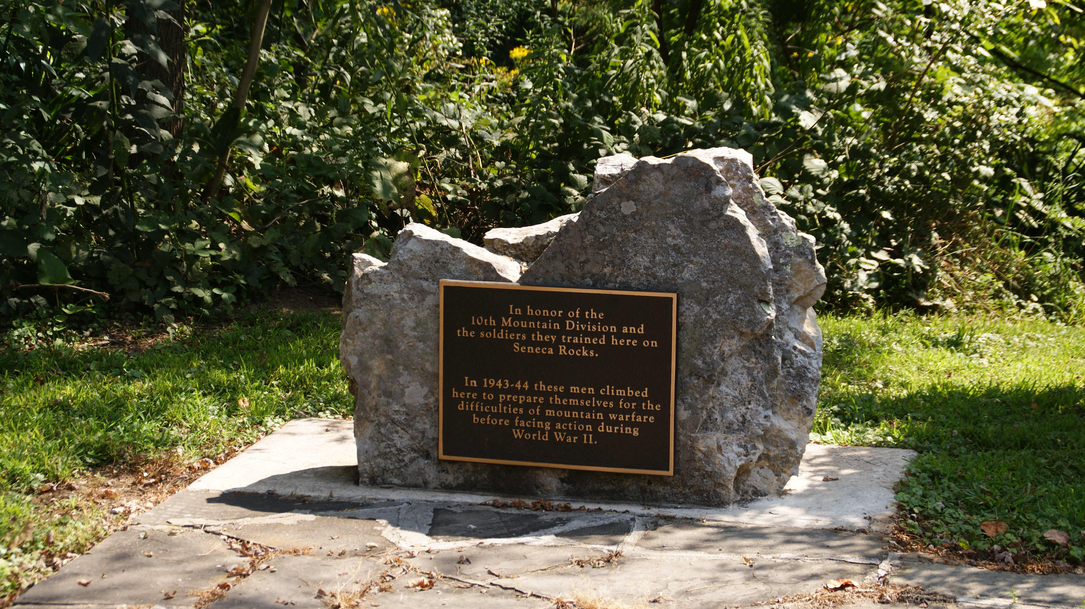 WW2 Training Plaque at Seneca Rocks